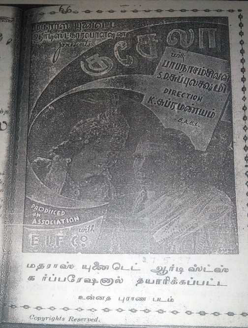 This is a scanned copy of the Song book of a Tamil-language film titled Kuchela released in 1936 in India